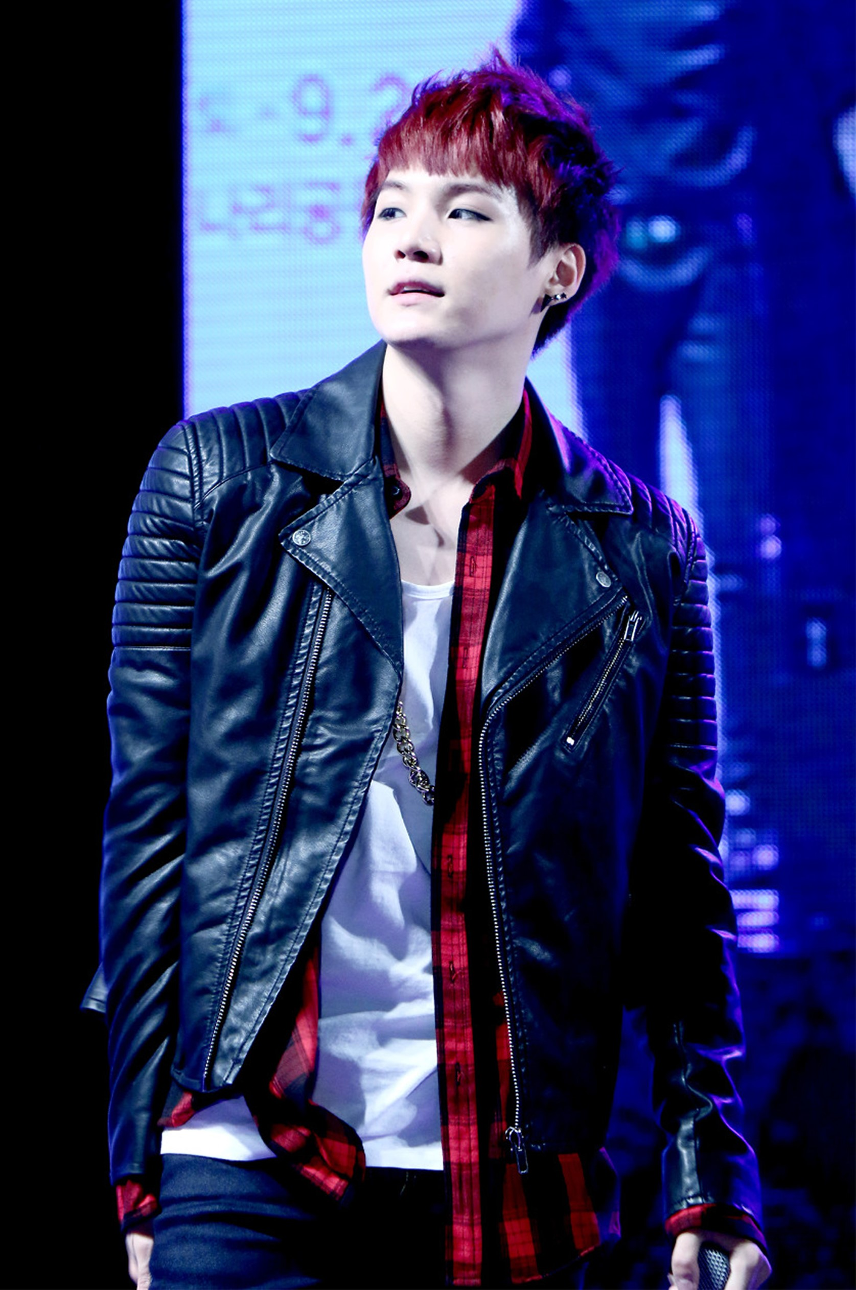 Suga at Yangzhou Cotton Festival on September 21, 2014.